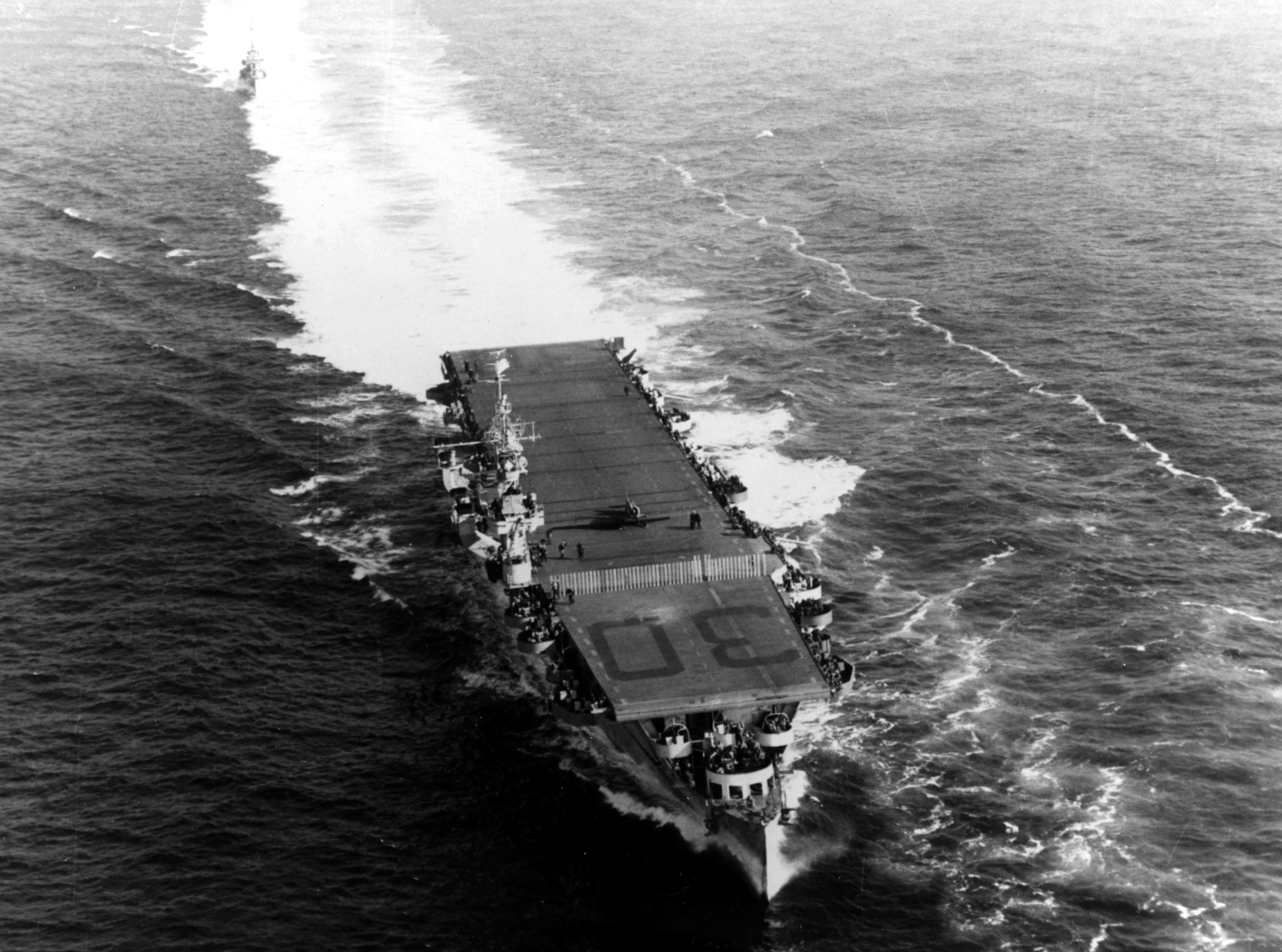 The U.S. Navy light aircraft carrier USS San Jacinto (CVL-30) underway off the U.S. East Coast (position 36 55'N, 75 07'W) on 23 January 1944, with a North American SNJ Texan training plane parked on her flight deck. Note the destroyer steaming astern of the carrier.